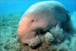 Dugong dugon photographed in Al Bahr al Ahmar (Red Sea), Egypt